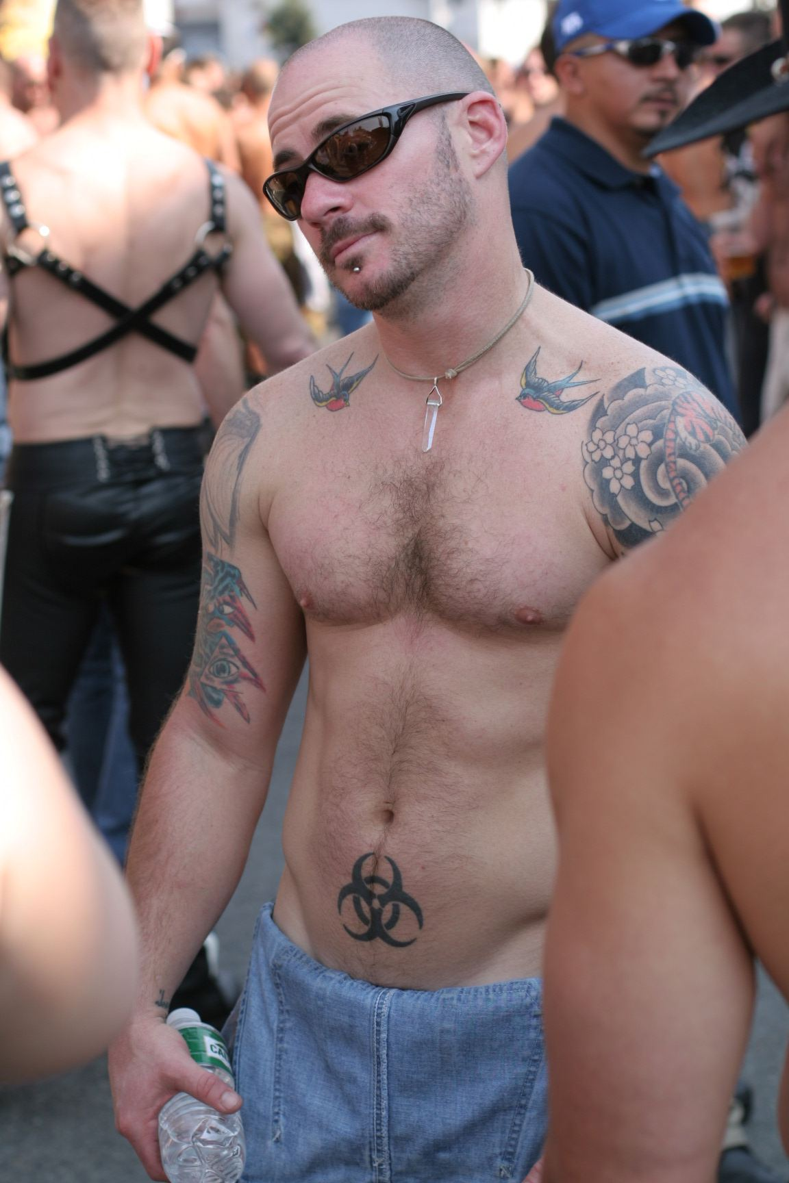 If I knew I could always pull off a stomach like that, I'd do the biohazard there. He also looks somewhat familiar, but it might be just a general gay type. Fun fact: In the gay community, that tattoo usually means HIV+.